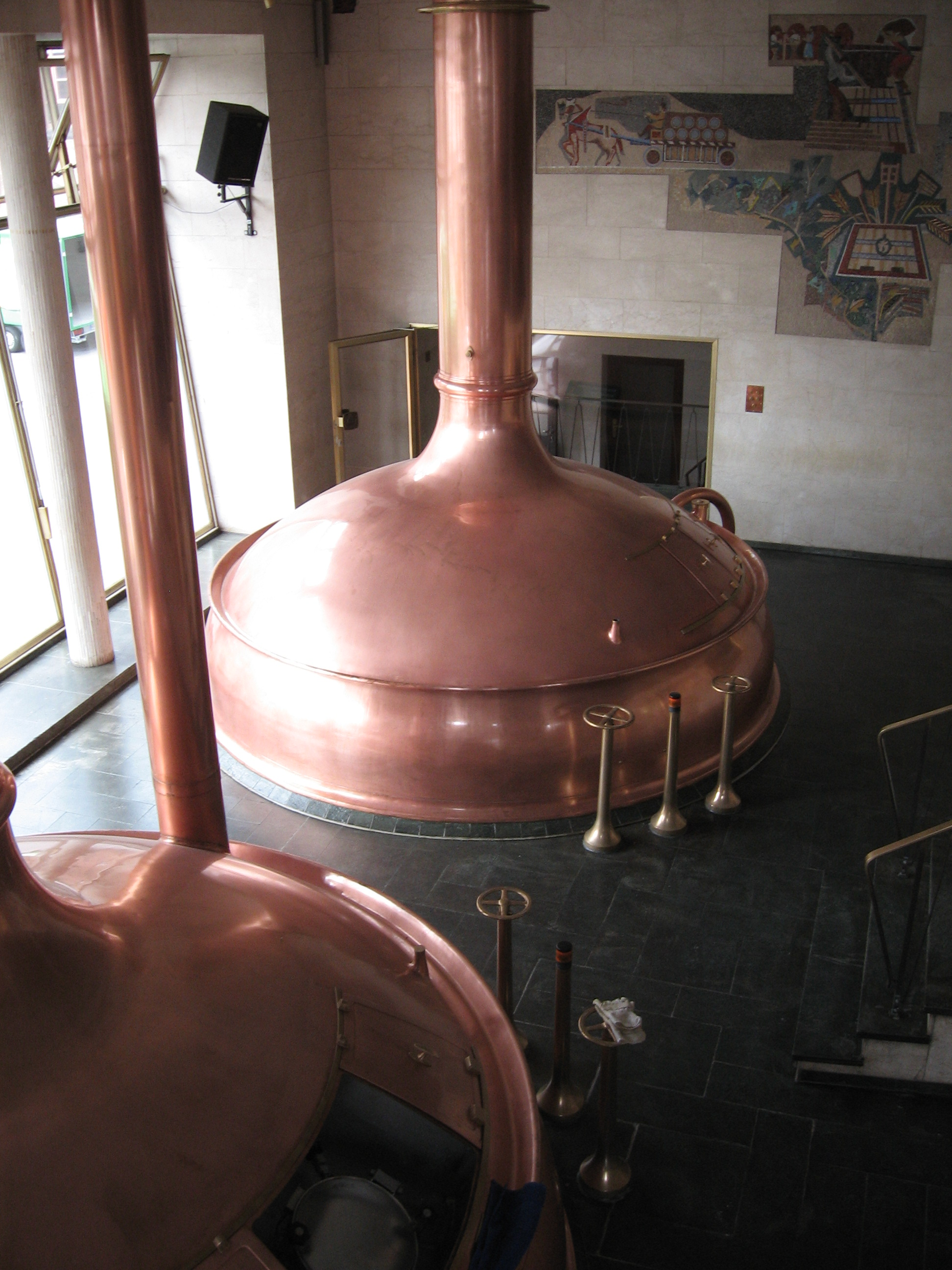 Privatbrauerei Hoepfner, a German Brewery near Karlsruhe. This image: The Brew kettle